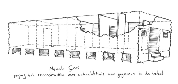 Archaeological illustration from Nevalı Çori, eastern Turkey.